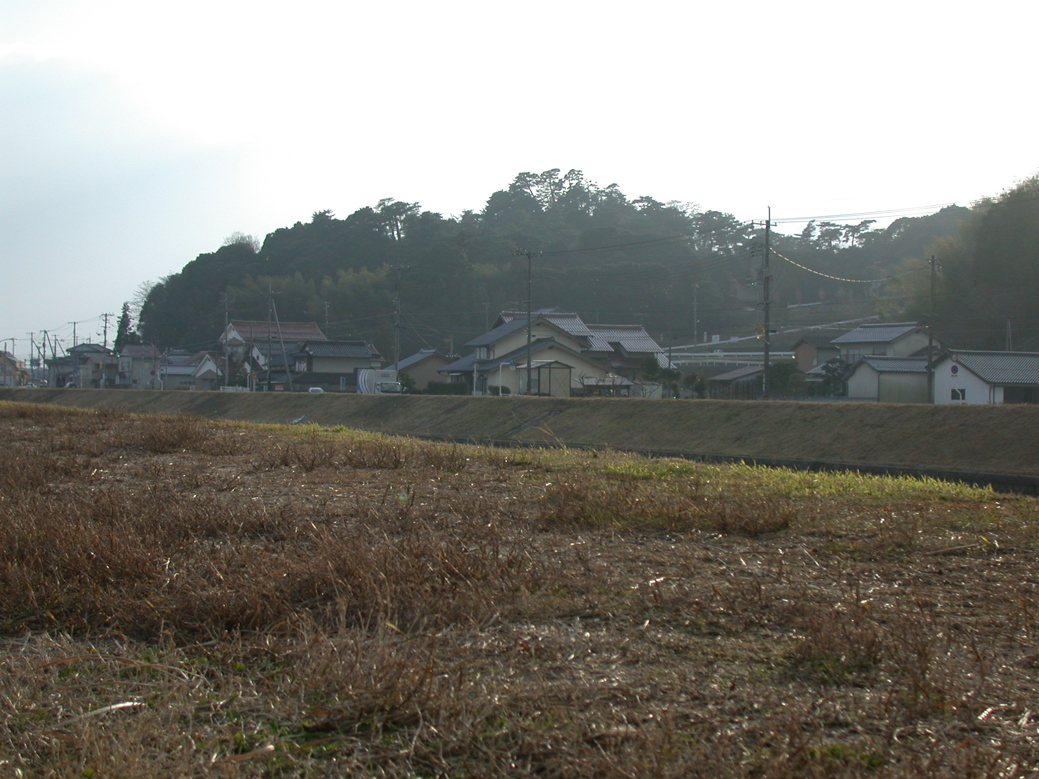 Hirata Castle (Atagosan Park) in Izumo, Shimane prefecture